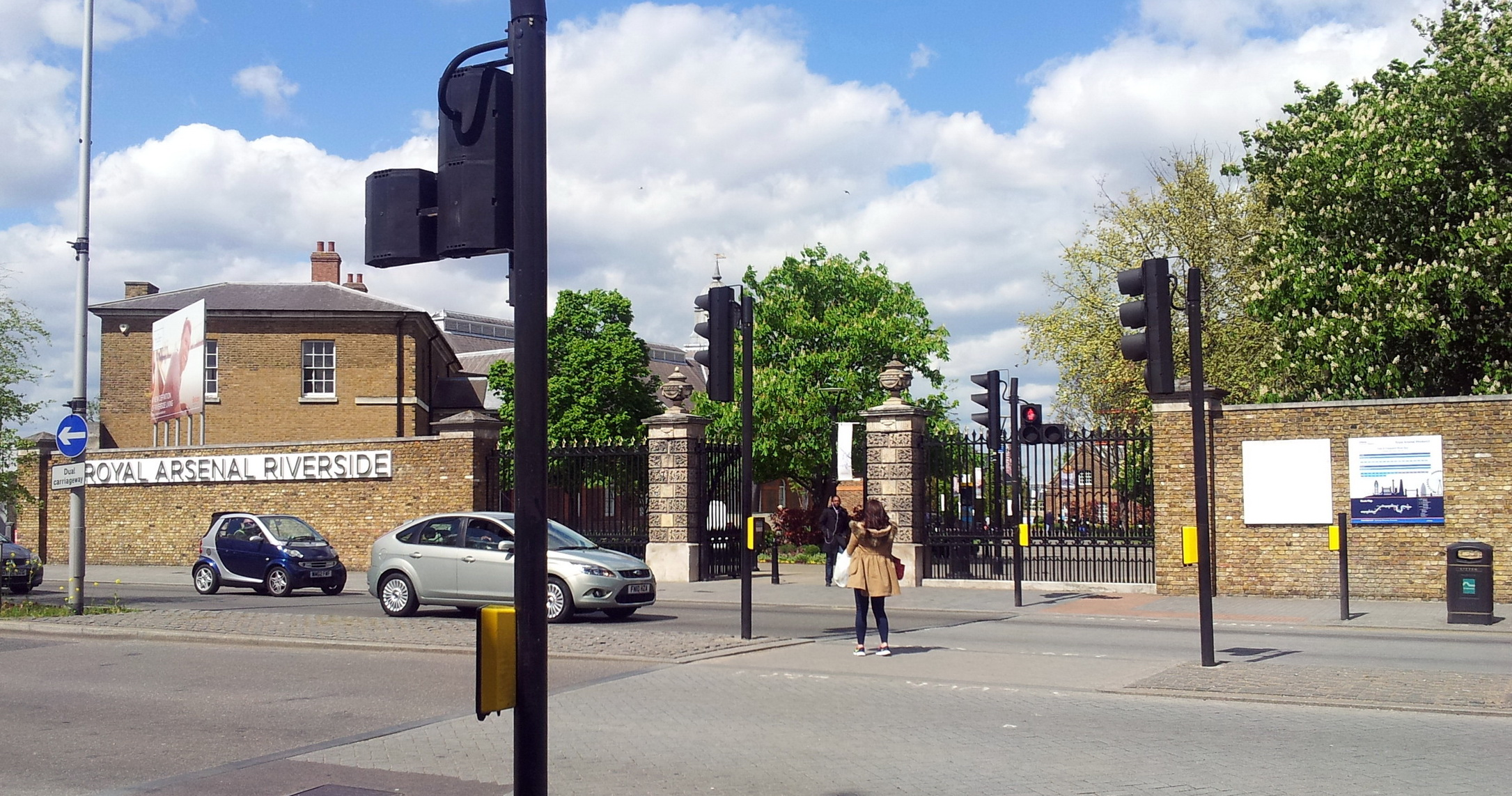 Entrance gate of Royal Arsenal Riverside at Beresford Street, Woolwich, South East London.